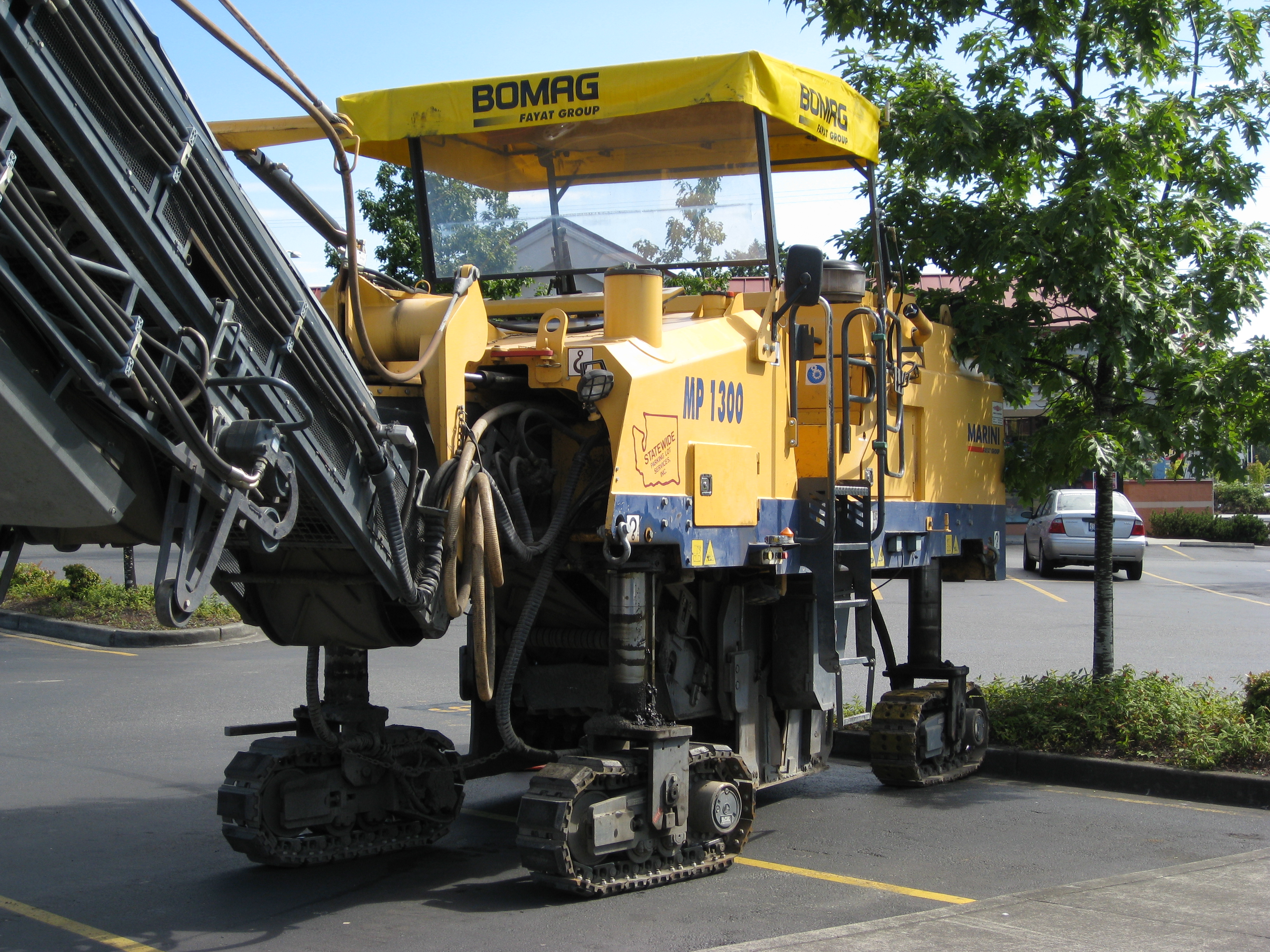 BOMAG MP 1300 Asphalt Milling Machine